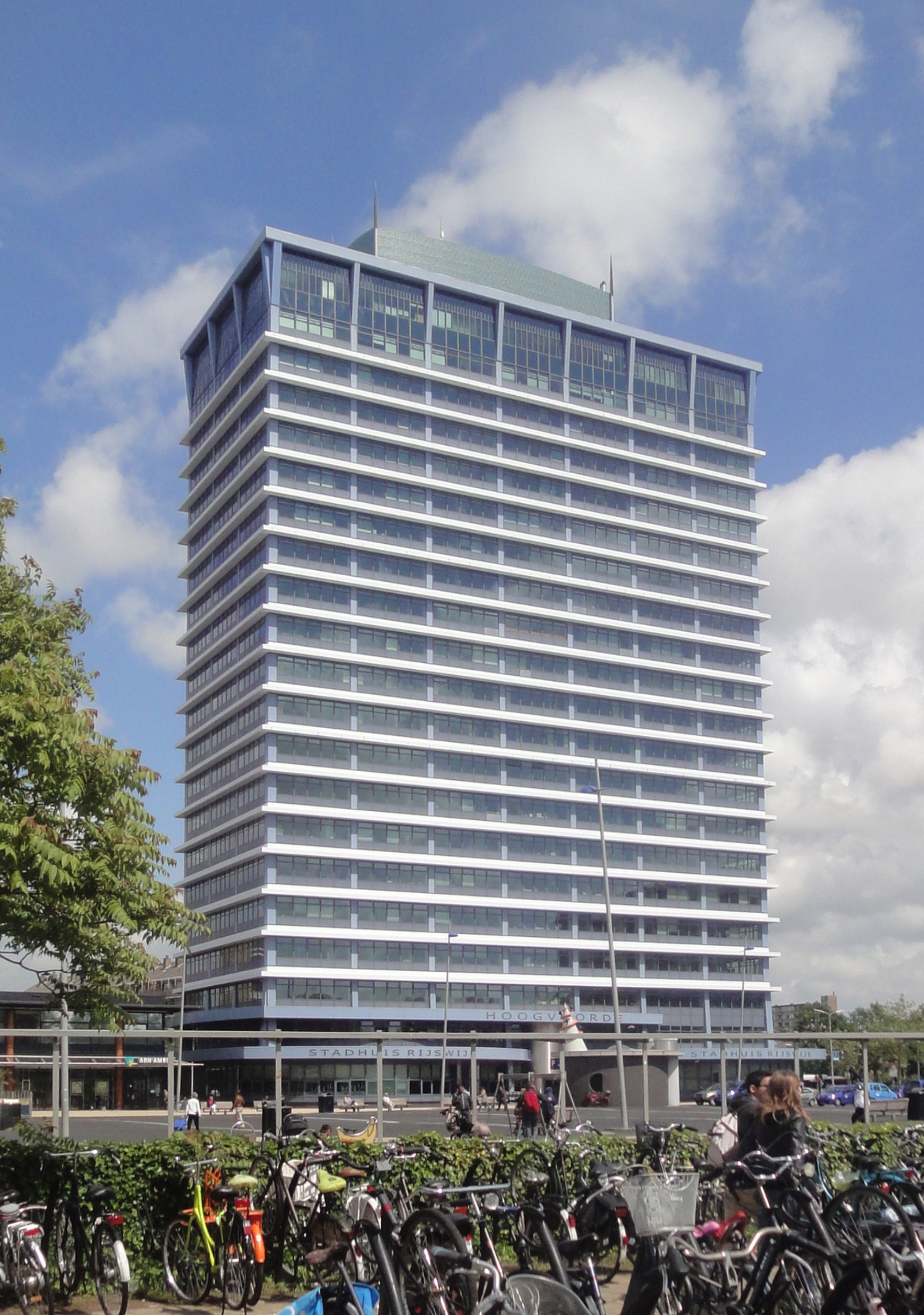 The new city hall of Rijskwijk